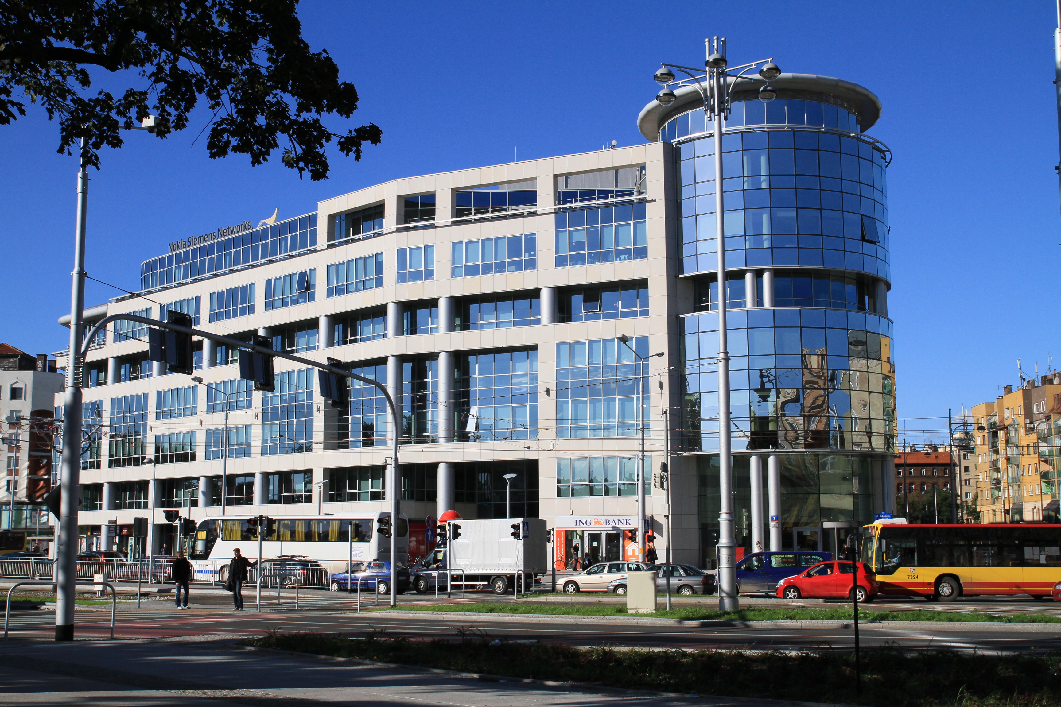 Bema Plaza office building in Wroclaw summer 2010